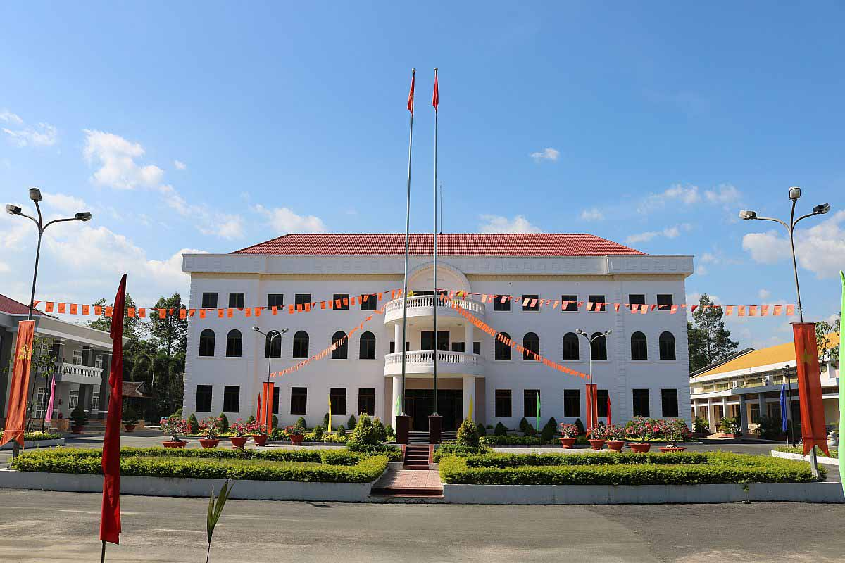 Huyện Dương Minh Châu